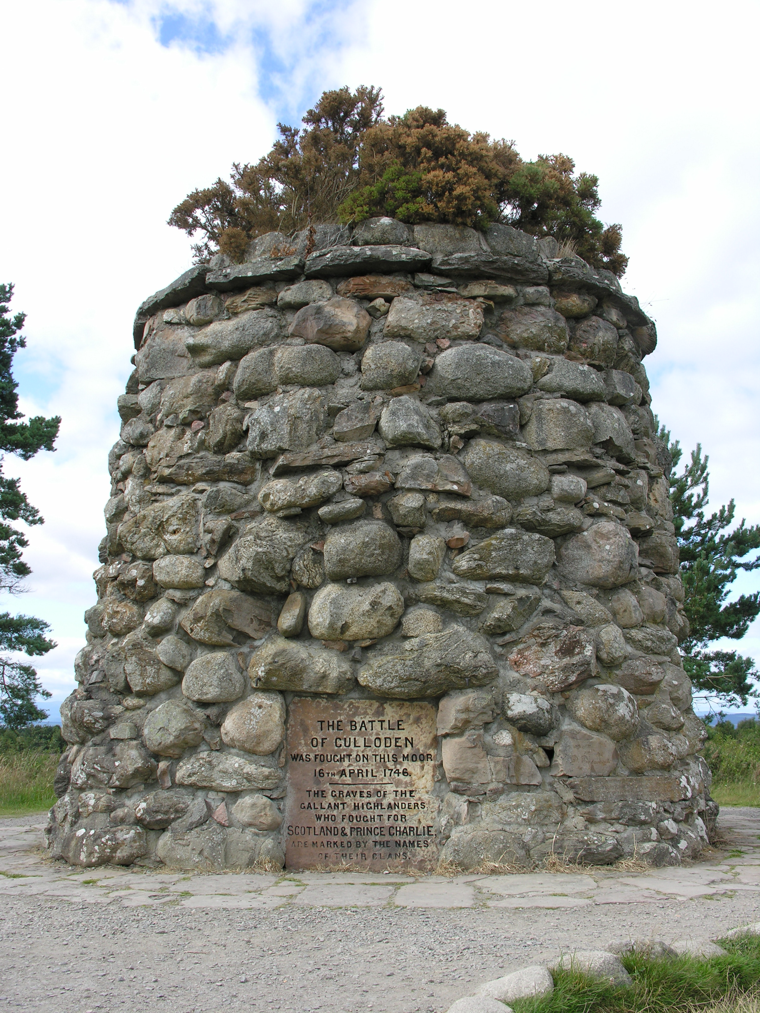 Memorial at the Culloden Battlefield near Inverness, Scotland